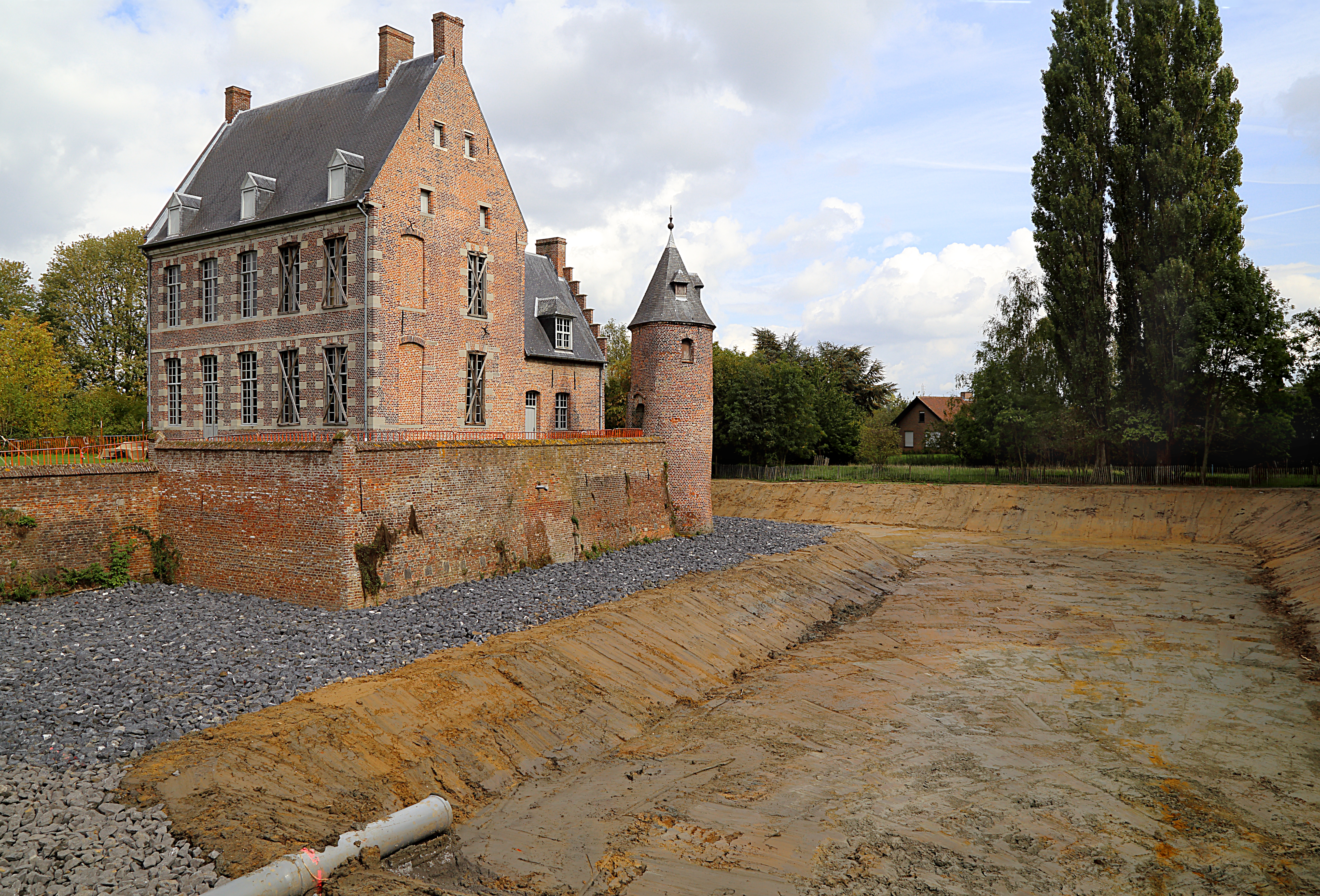 Works at the level of the moat of the Castle of the Counts in Mouscron, Belgium.